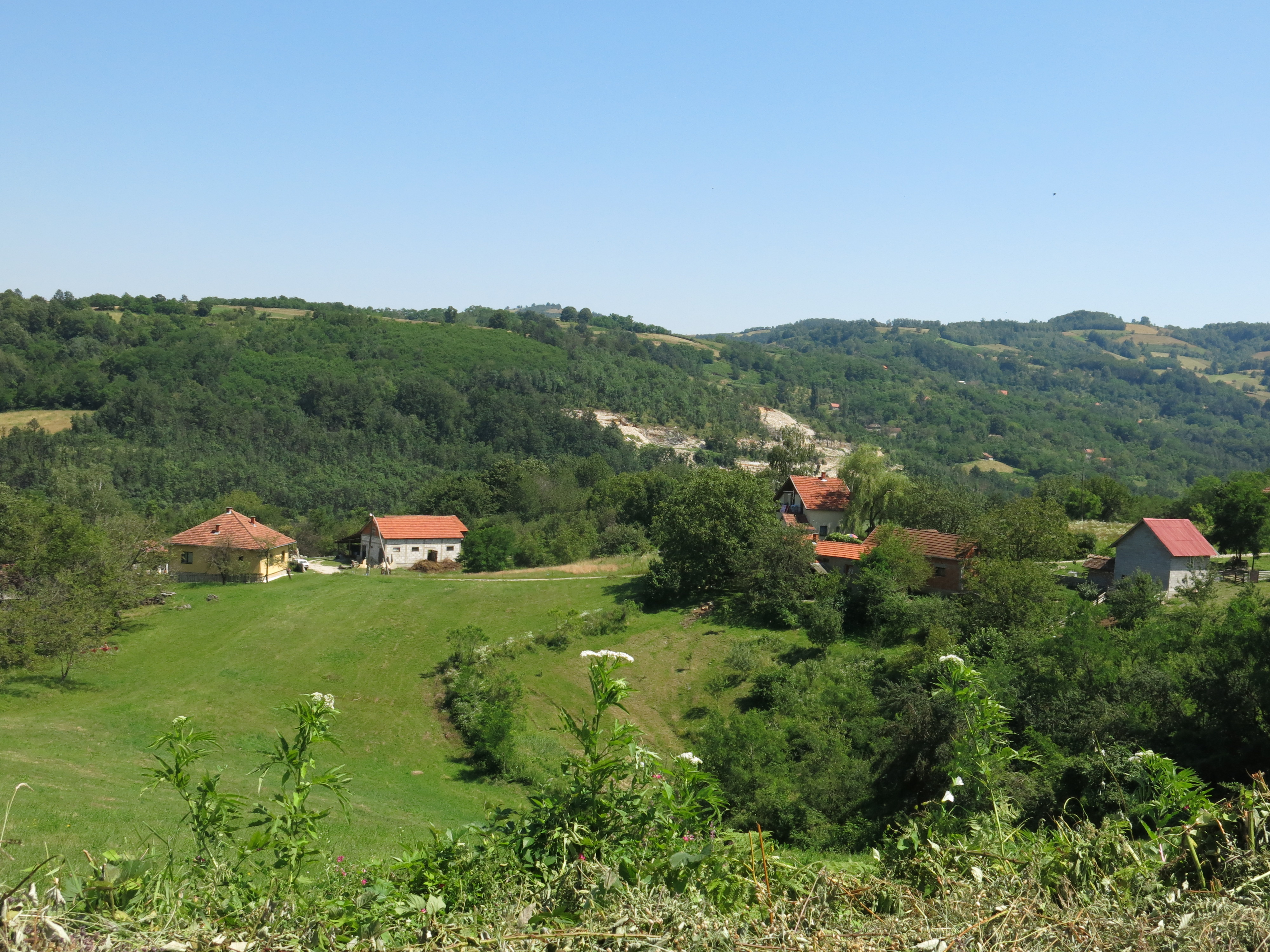 Struganik, Houses in the village